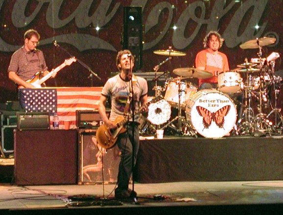 Members of Better Than Ezra in concert in Nashville, Tennessee. Taken by Ichabod, August 1, 2002.